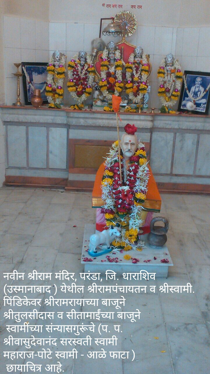 Shrirampanchayatana and Paramhansa Parivrajakacharya Shri Pradnyanananda Saraswati Swami at Navin Shriram Mandir, Paranda, Osmanabad (Maharashtra)